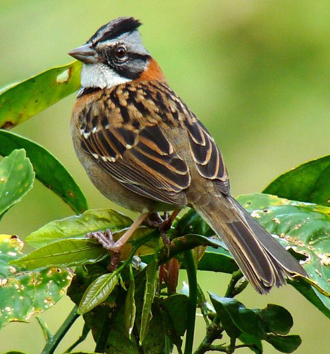 A Rufous-collared Sparrow in Manizales, Caldas, Colombia.